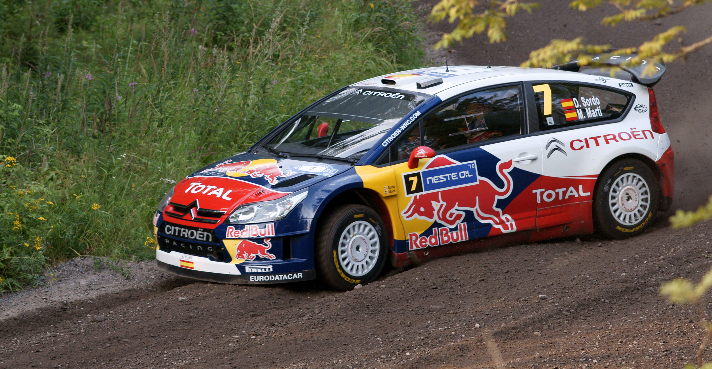 Dani Sordo driving at Laajavuori special stage, Rally Finland 2010.